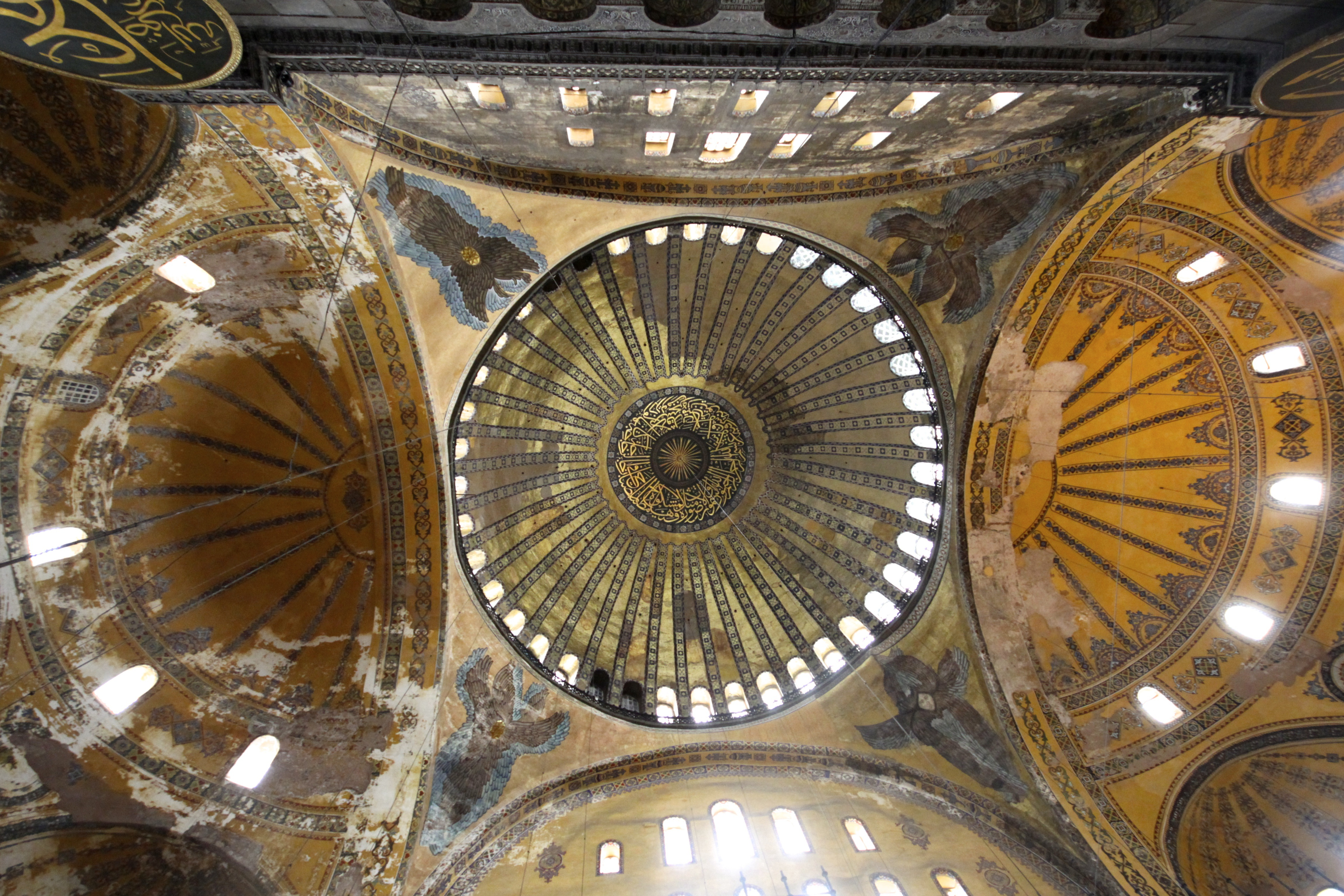 Interior of Hagia Sophia